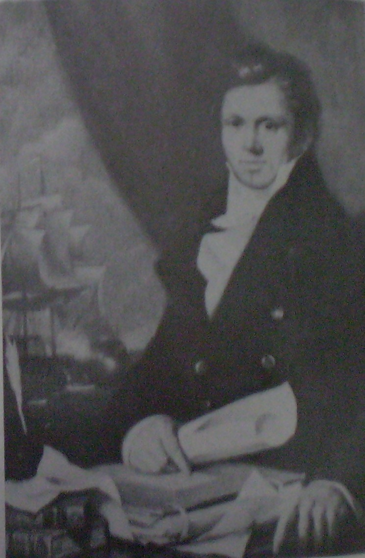 William Porter White